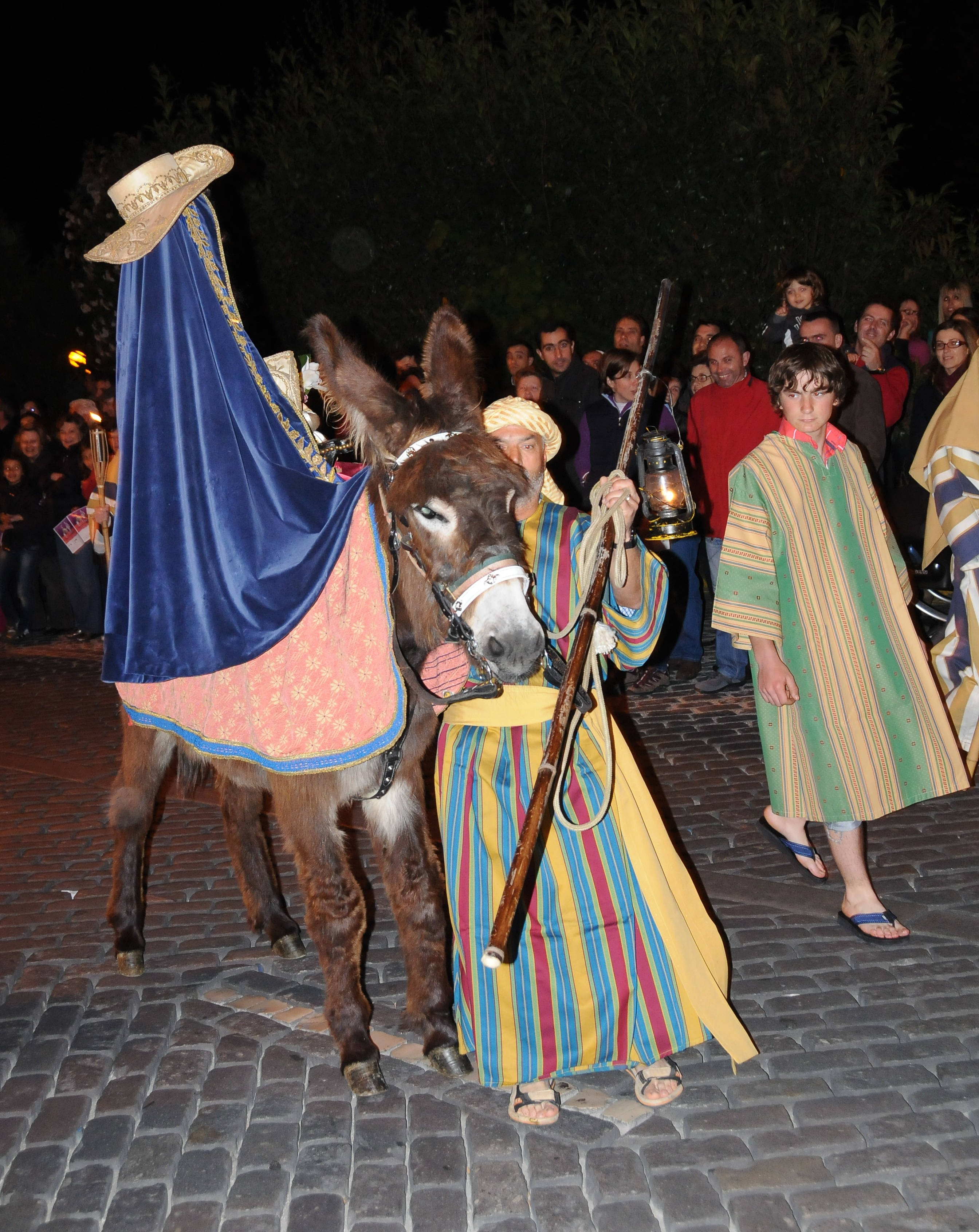 Procession "Vós Sereis o meu povo" ("You shall be my people") in the Holy Wednesday, in Braga, Portugal.